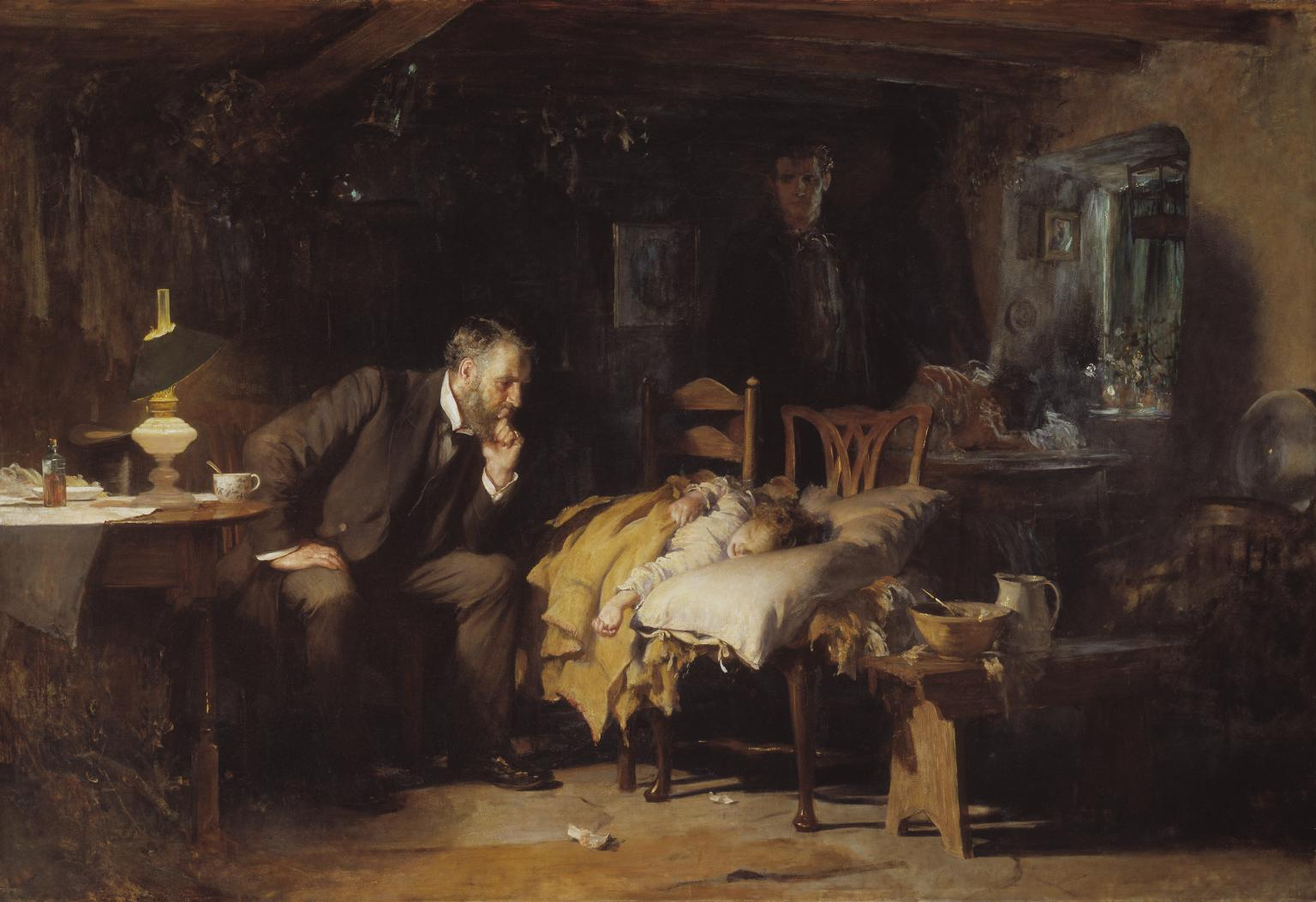 Beautiful panorama of the traditional medical profession. Notice the doctor in the foreground contemplating his patient, intrigued, trying to scrutinize the pathophysiology to achieve an effective therapy. We also see the sick girl, possibly victim of some of the terrible incurable infectious febrile diseases in the preantibiotic era, pale, weak, asleep. Deep down we see the dismayed mother, worried, hoping for the worst. Also notable is the expression of the father, who cannot contain his concern about his daughter's illness, but who has to remain calm to give comfort to the grieving mother.